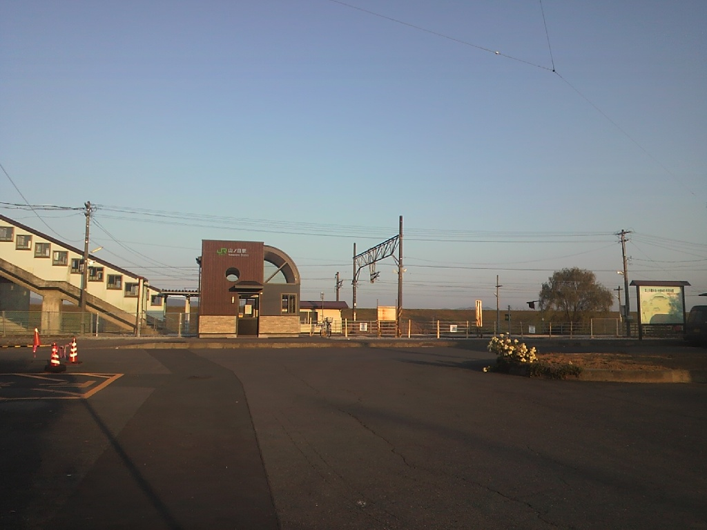 Yamanome Station, new building